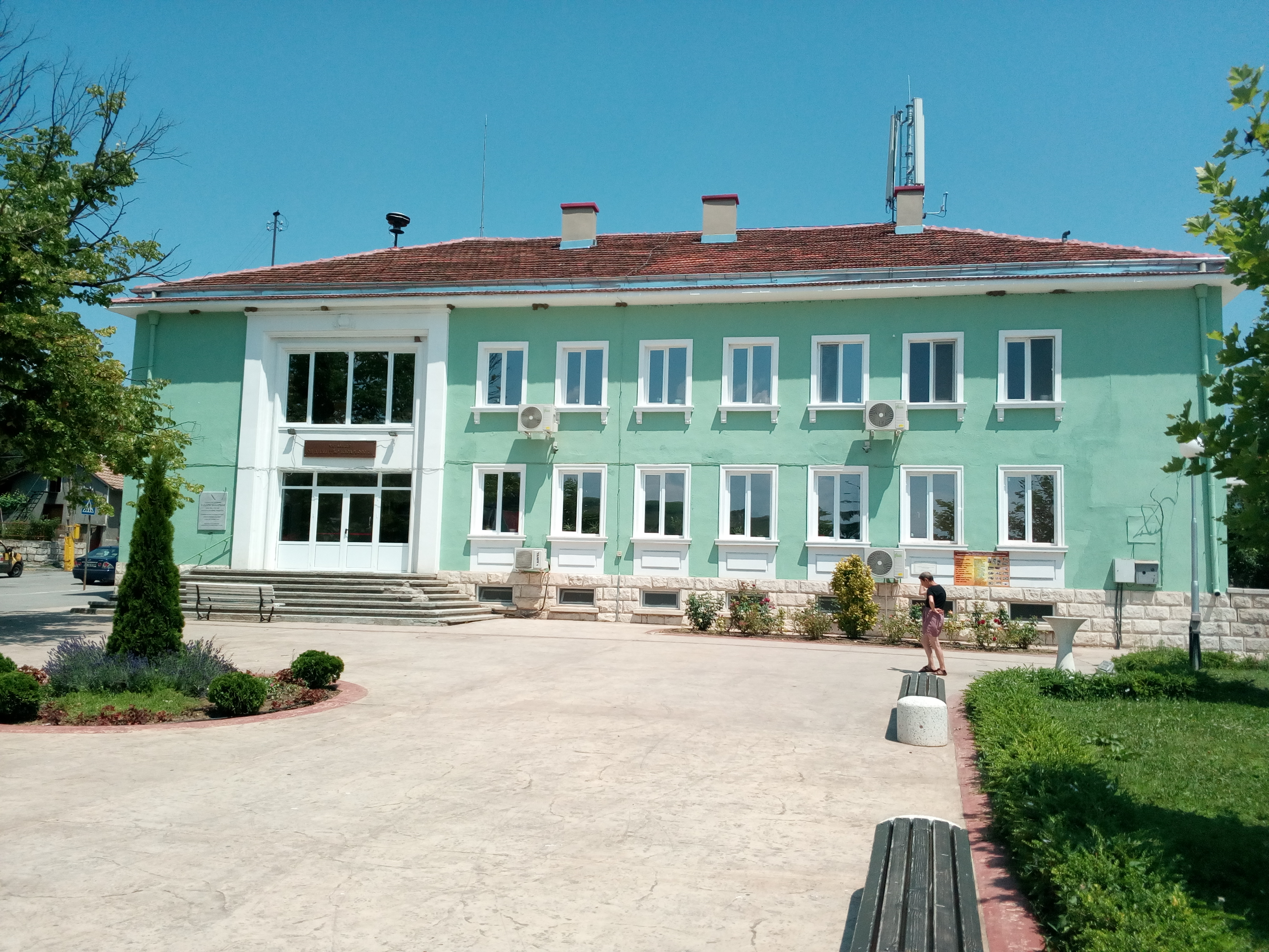 Читалище "Св.Димитър Басарбовски"